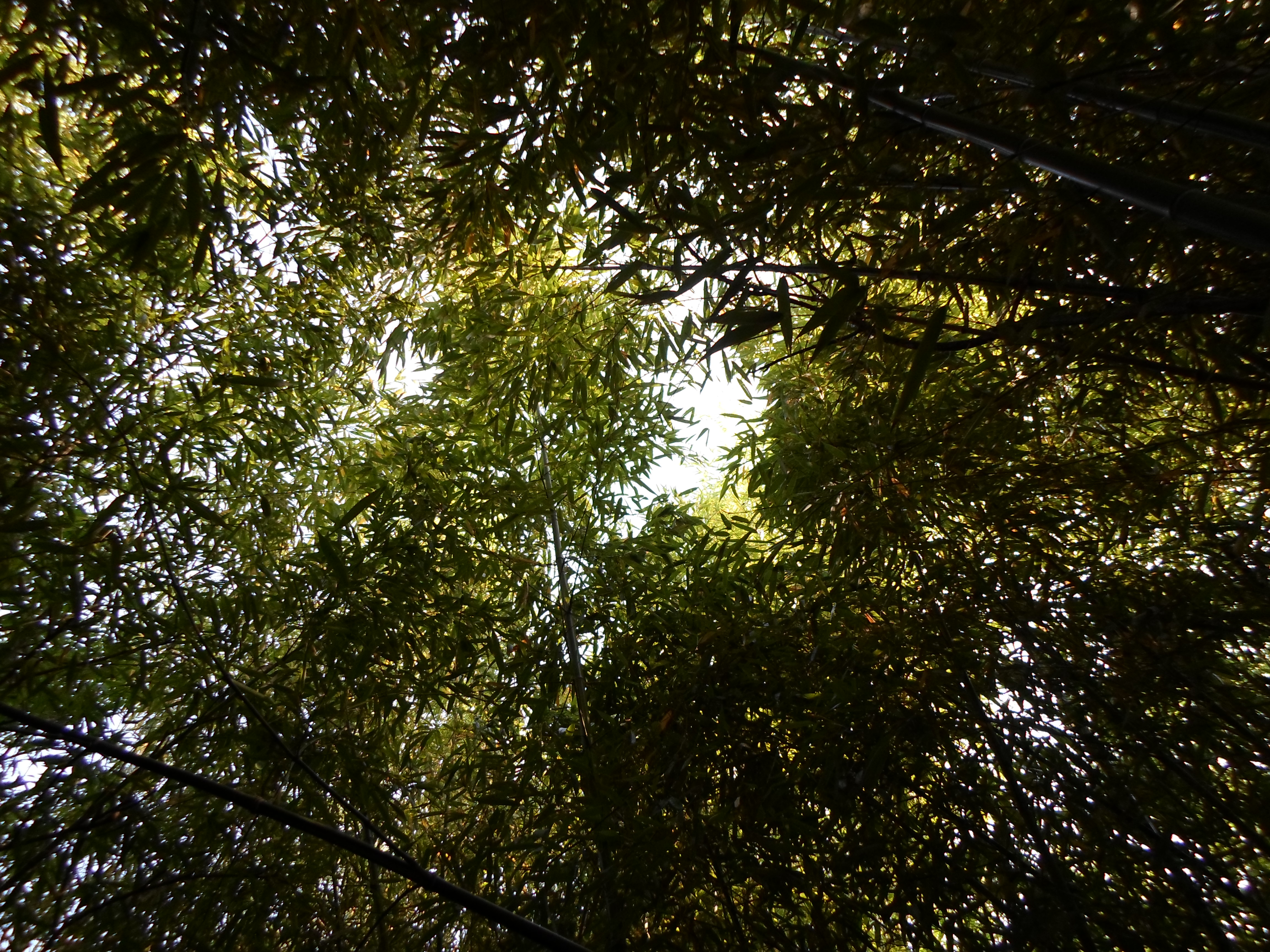 Bamboo Phyllostachys viridiglaucescens Alain Van den Hende 201706 Bambusoideae